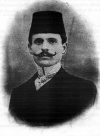 Mit’hat Frashëri